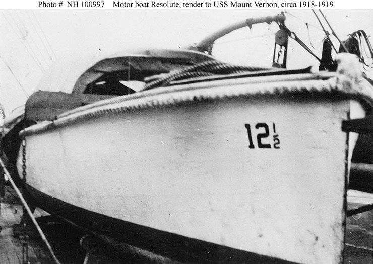 United States Navy motorboat USS Resolute (SP-3003) aboard transport USS Mount Vernon (ID-4508), for which she served as a ship's tender in 1918 and 1919.